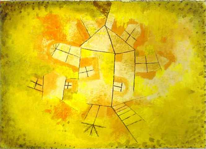 Oil on cotton cloth. 37.5 x 52.2 cm. Thyssen-Bornemisza Collection, Madrid, Spain.